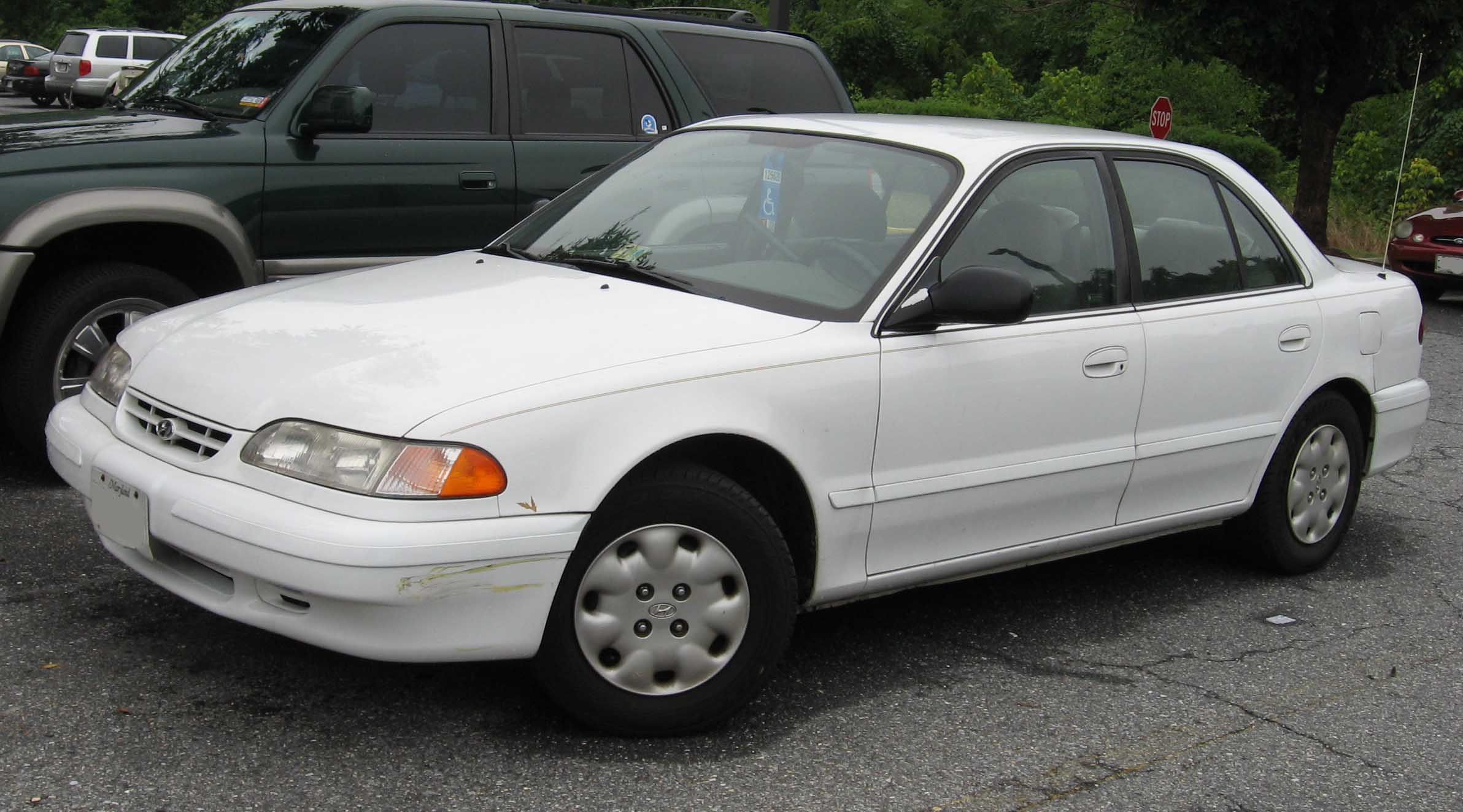 1995-1996 Hyundai Sonata photographed in USA.